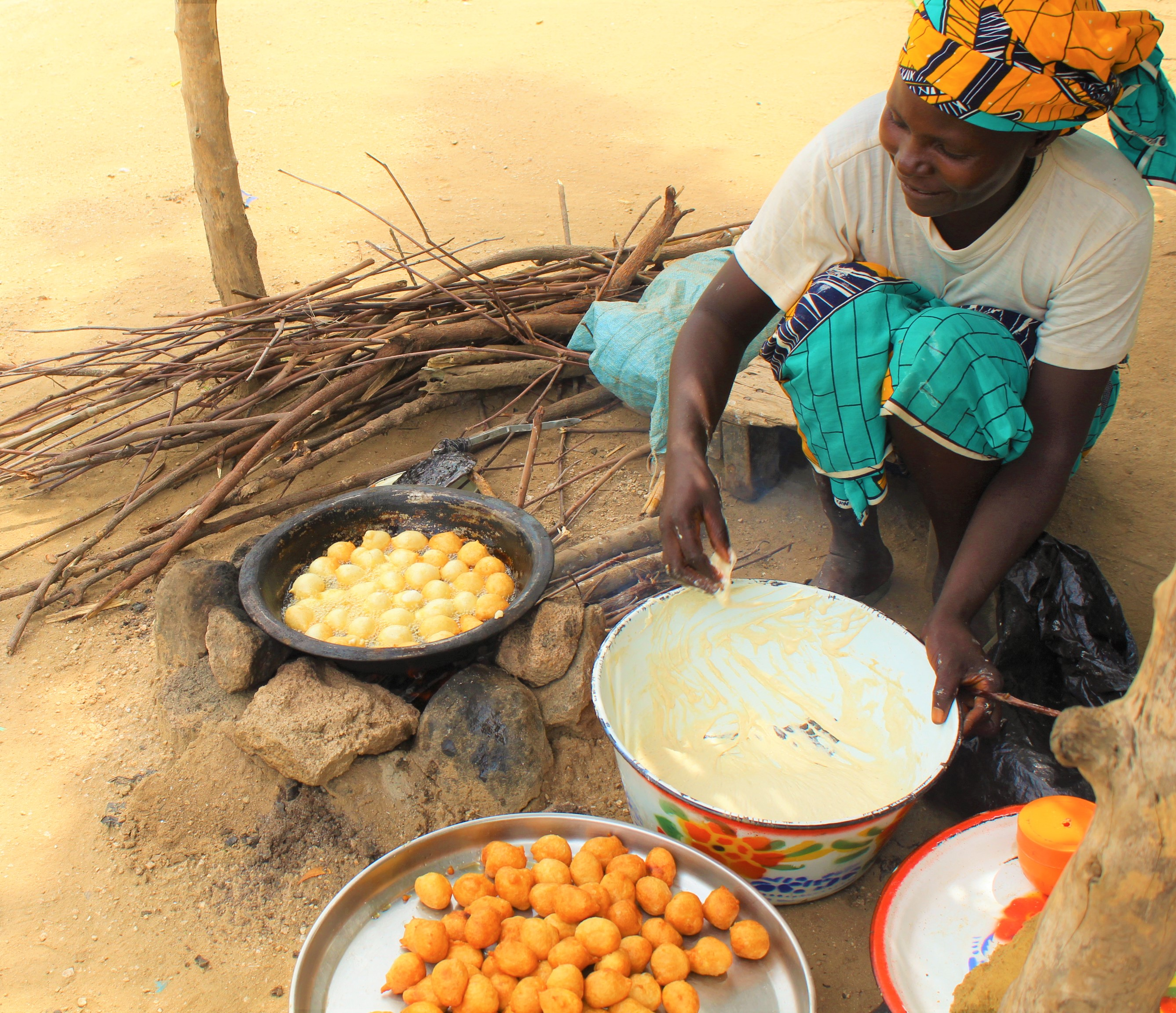 Chaque jour, cette dame frit les beignets à Tokombéré This is an image of "African people at work" from Cameroon